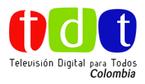 TDT Colombia logo